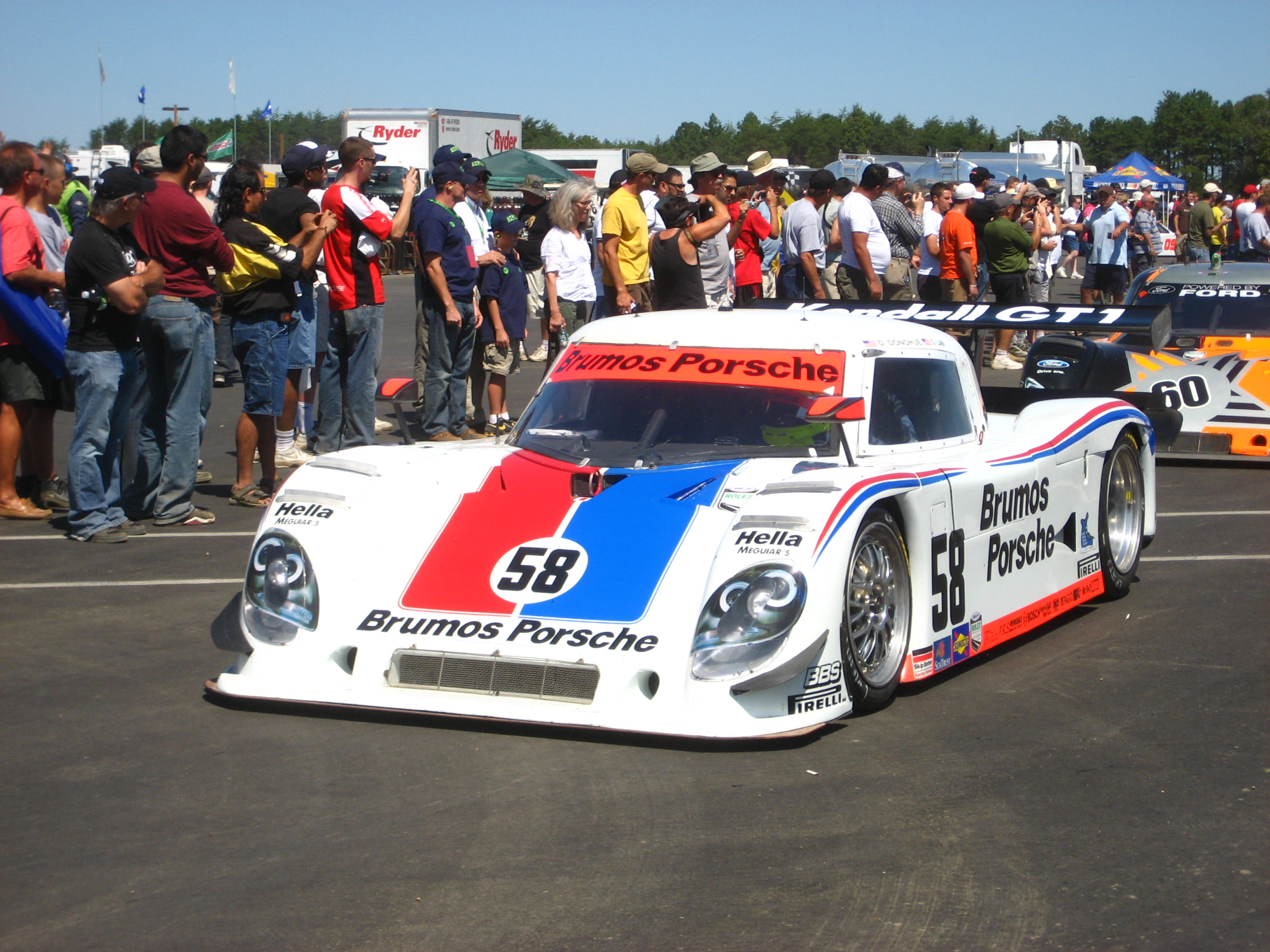 Brumos Racing's Riley-Porsche at the 2008 Supercar Life 250 at the New Jersey Motorsports Park.